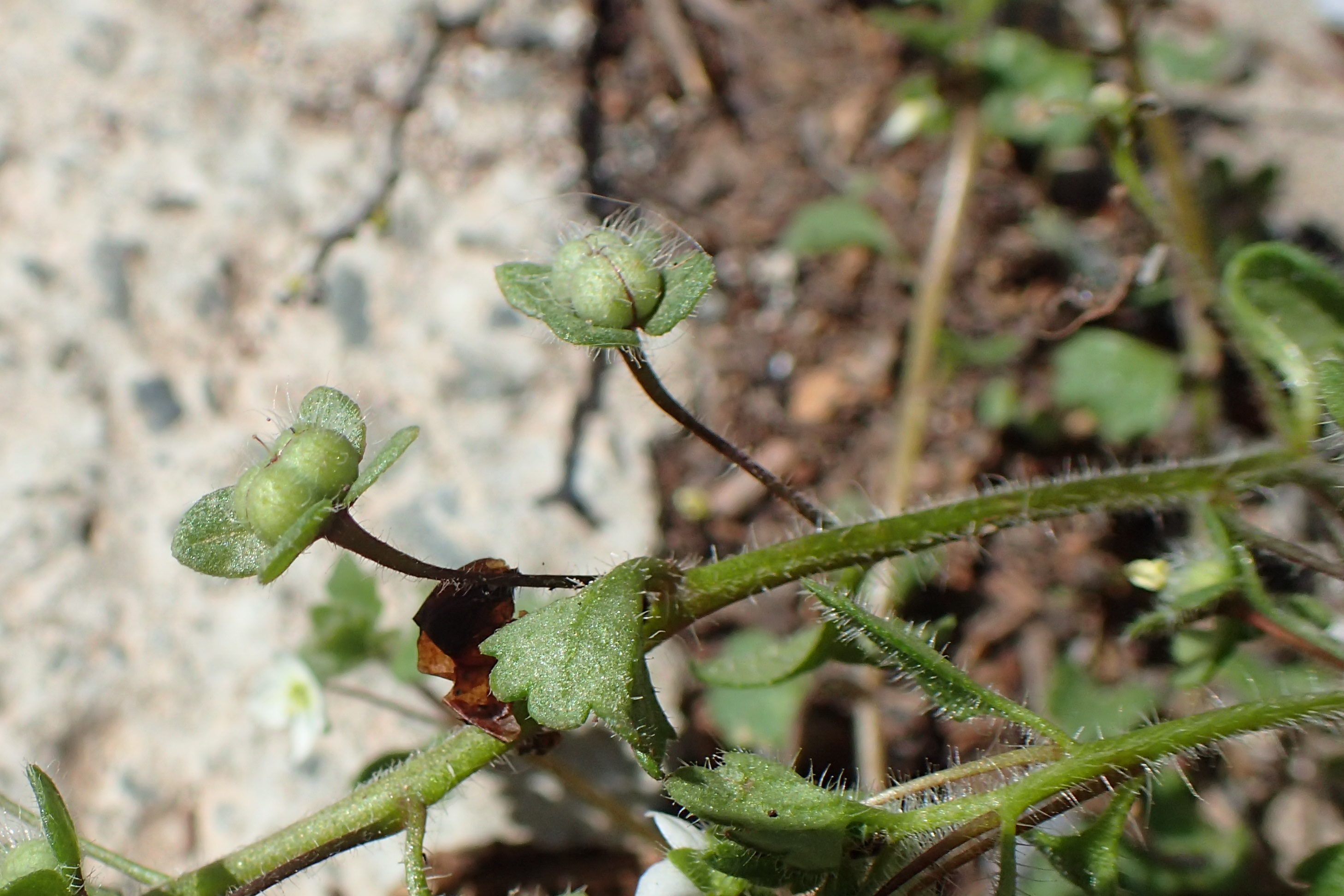 Veronica cymbalaria in Kato Arodes, Cyprus